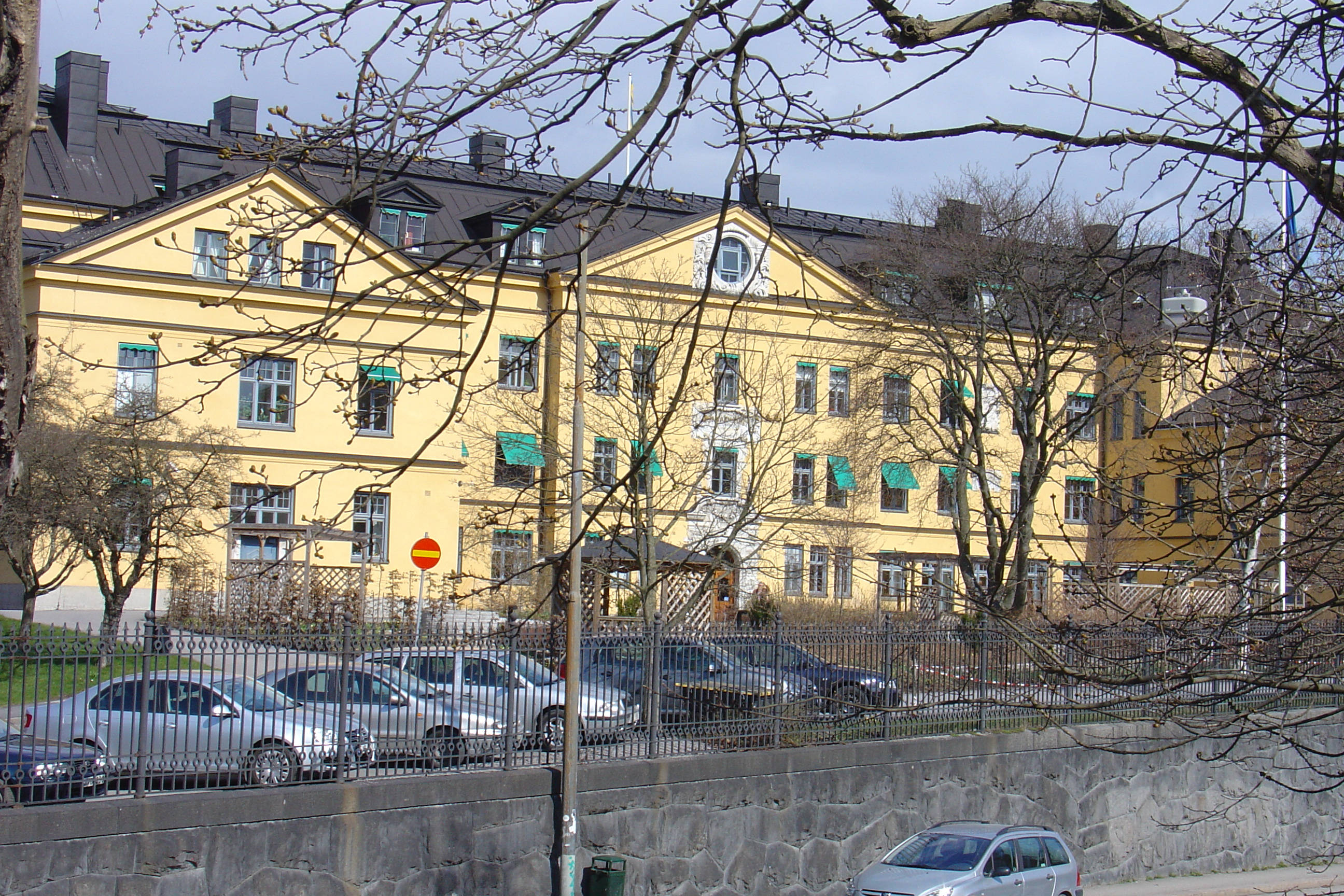 Borgarhemmet in Stockholm